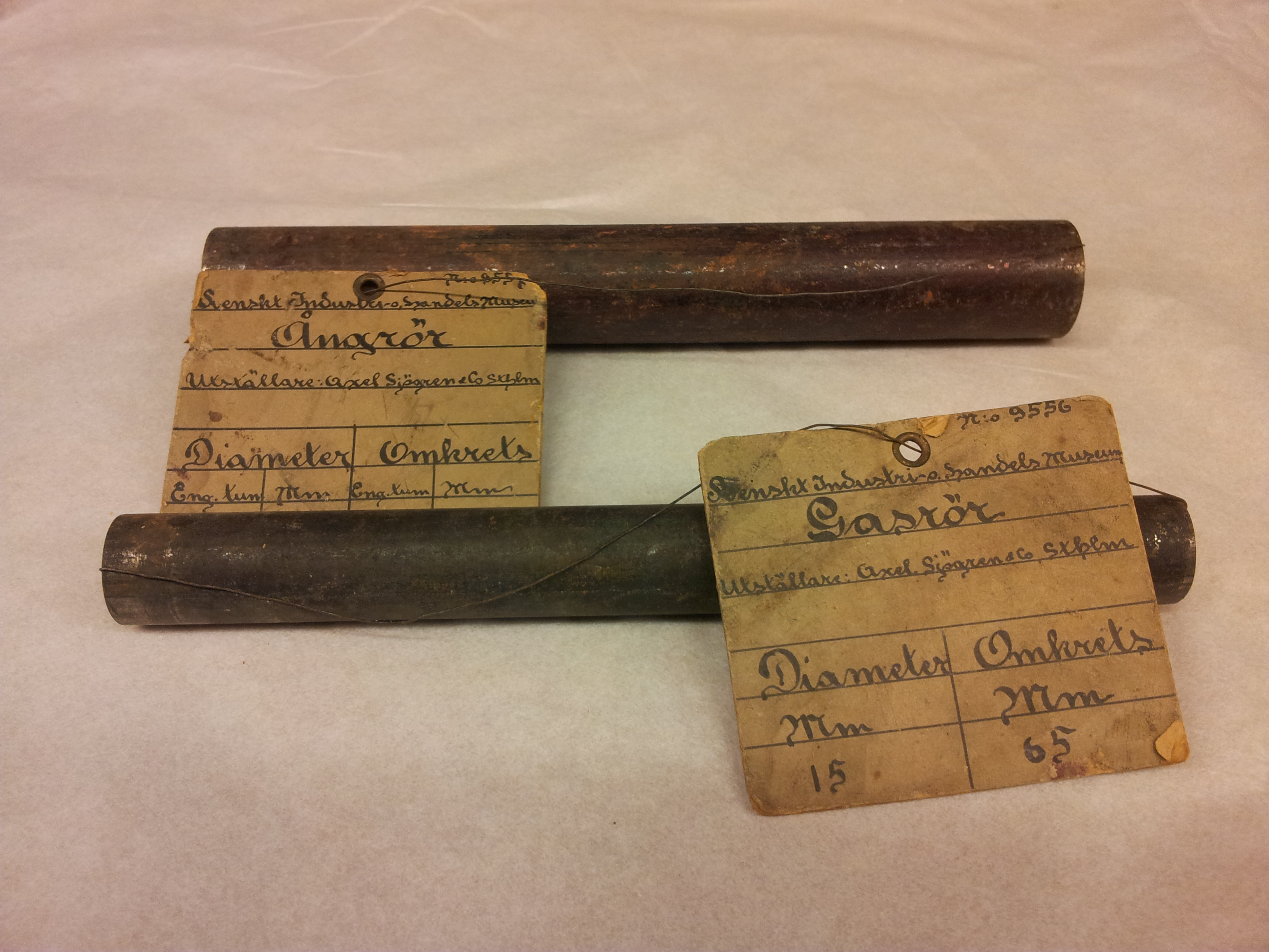 Sample pipes from former Svenskt Industri- och Handelsmuseum, manufactured by Axel Sjögren & Co, Stockholm, Sweden